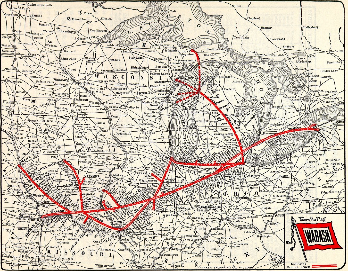 Route map of the Wabash Railway with marking of double-tracked lines.